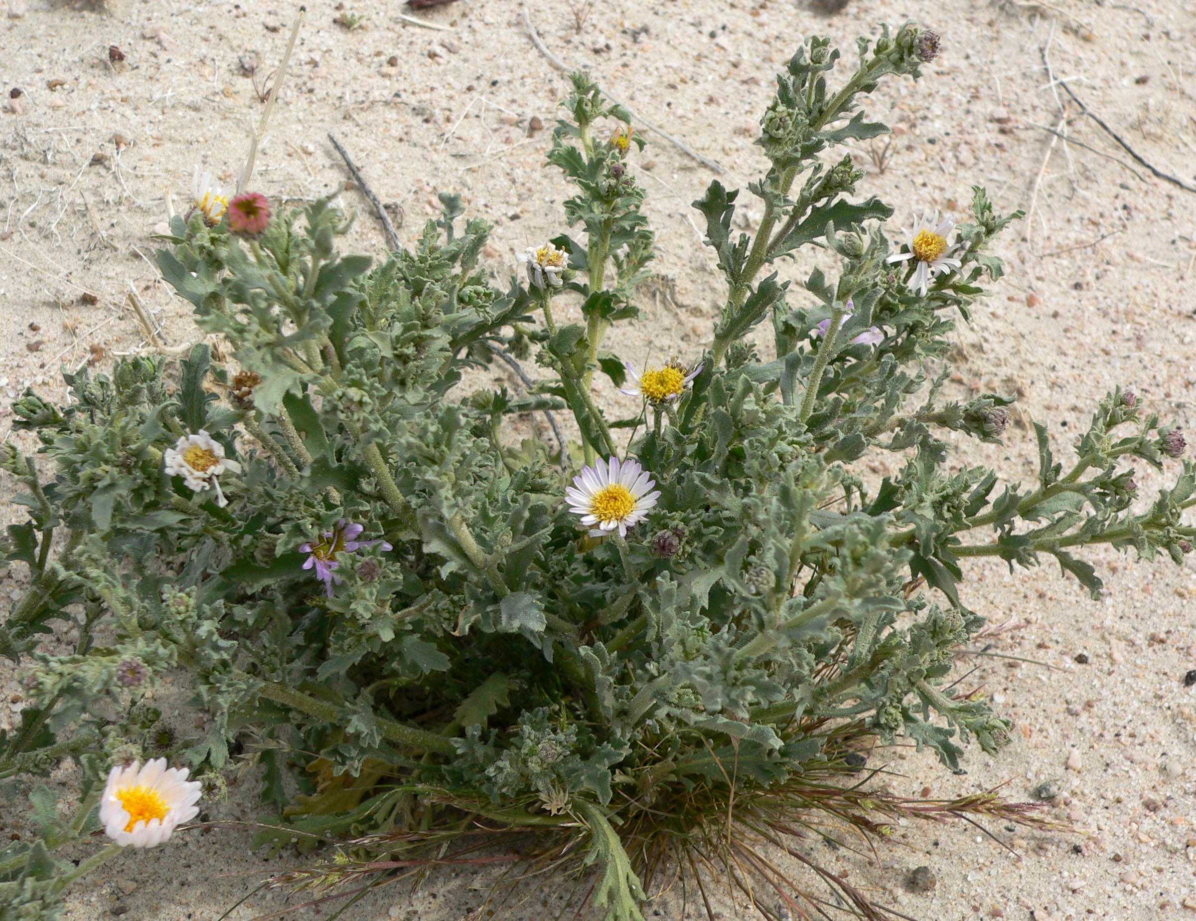 Arida arizonica at the edge of Soda Dry Lake southwest of Little Cowhole Mountain, south of Baker, California